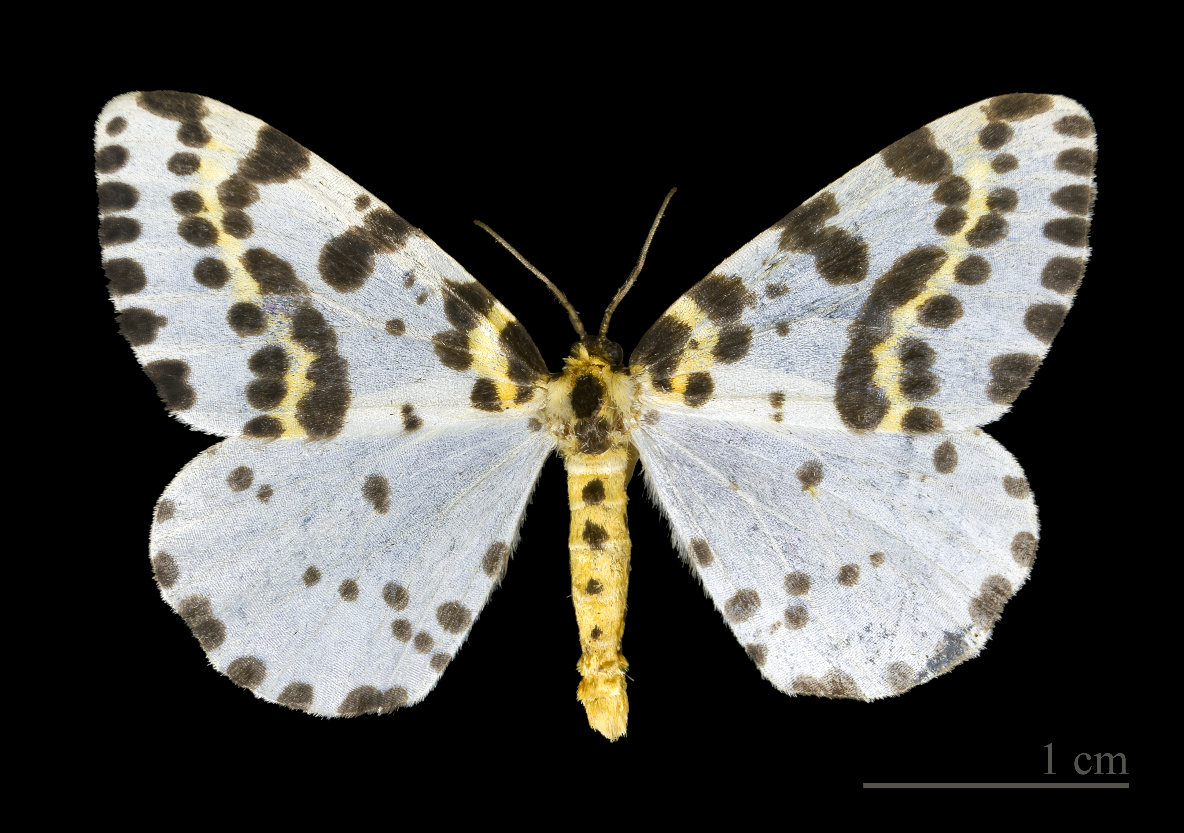 Magpie Moth, ♂ - Dorsal side Locality:Lasparets, Sainte-Croix-Volvestre, Ariège, France